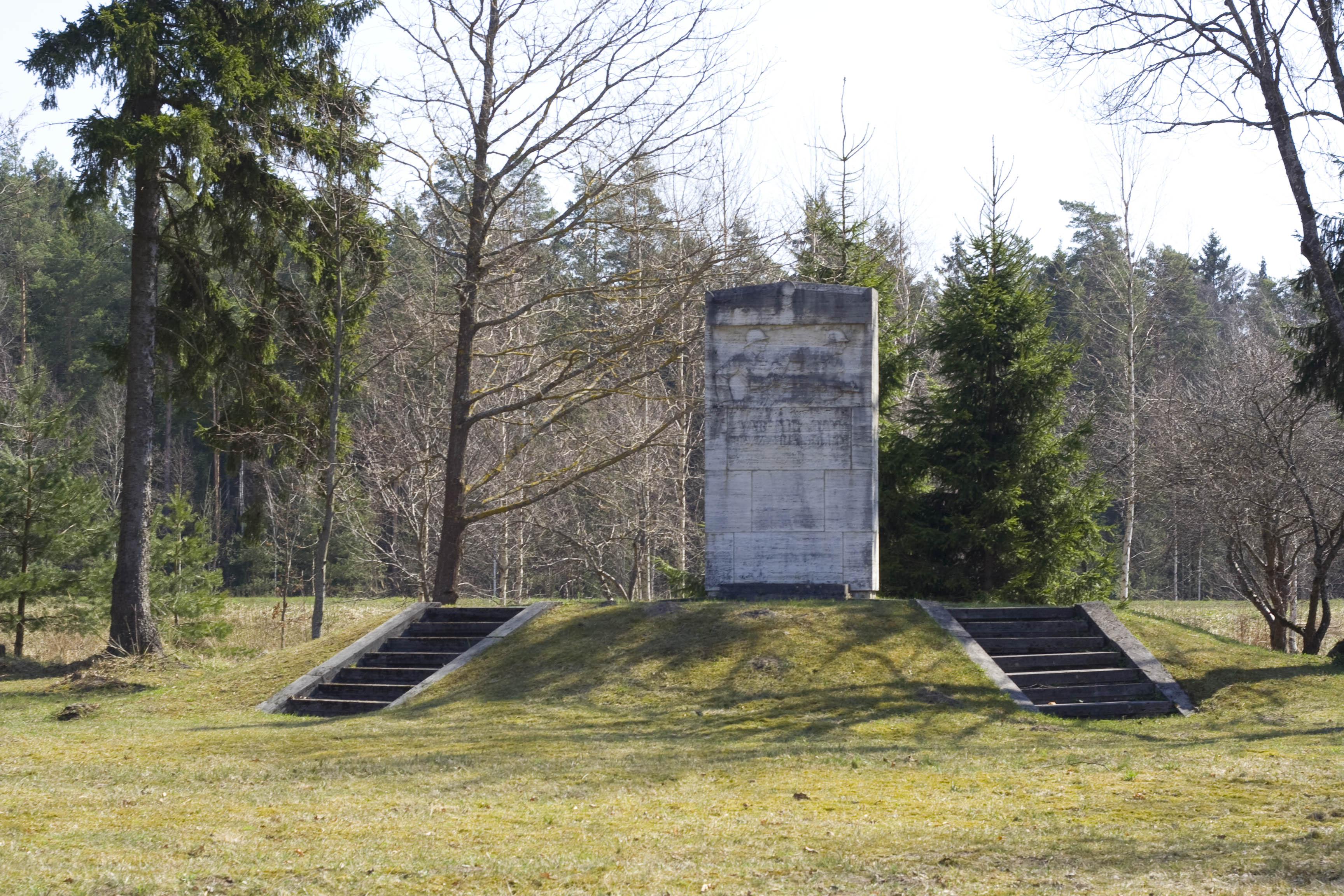 Monument in memory of killed in action latvian soldiers during Latvian Freedom War (1918-1920). Located in Ozolnieki municipality, Latvia. Inscription: "For the heroic fatherland's sons 1919" (author - Kārlis Zāle, built by his apprentice Mārtiņš Šmalcs). Built in 1937, during Soviet occupation (1944-1991) removed, restored in 1987.